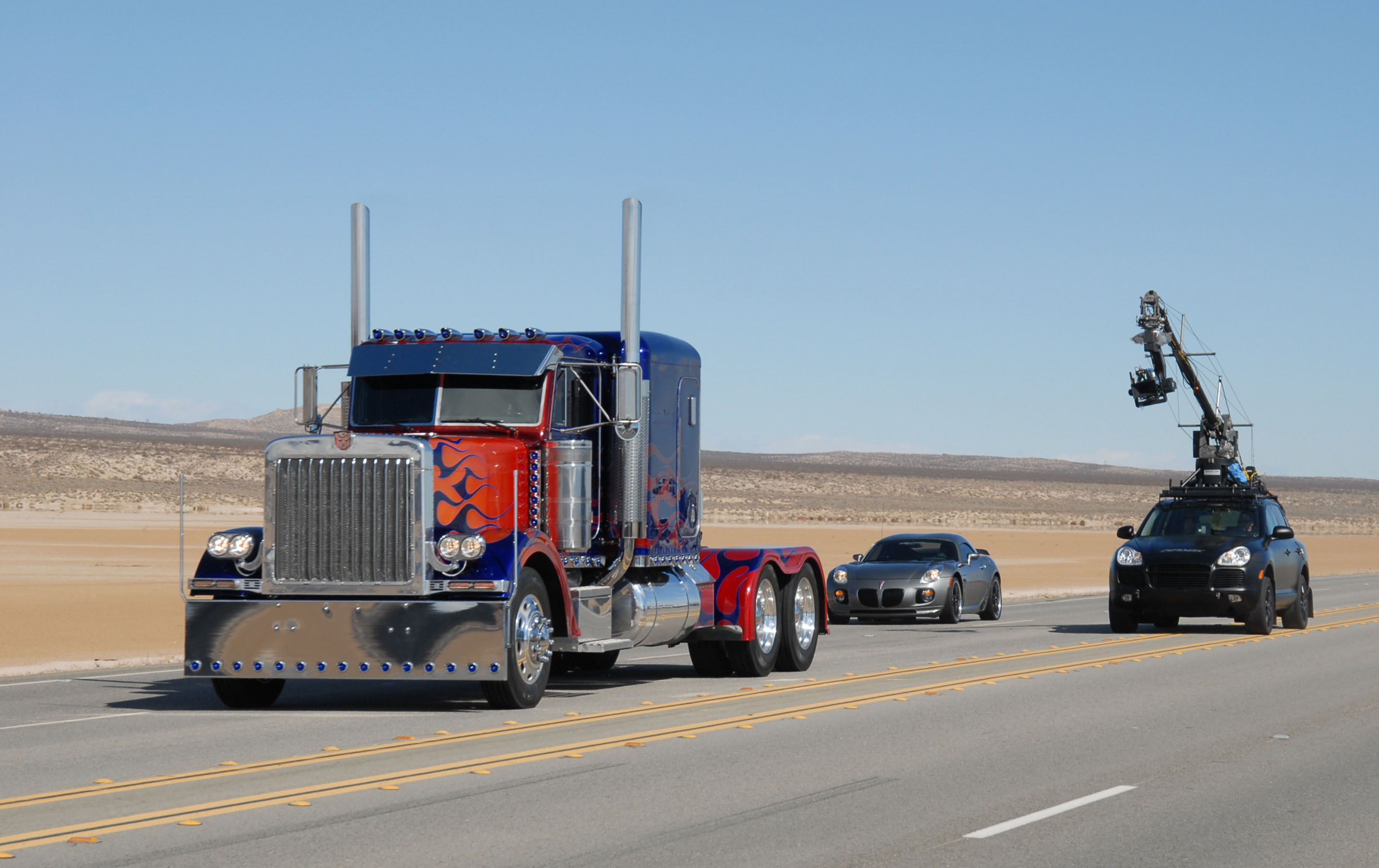 Shooting for Transformers with vehicles for Optimus Prime and Jazz.